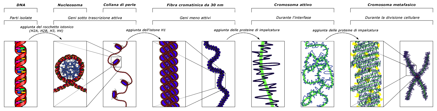 The major chromatin structures.